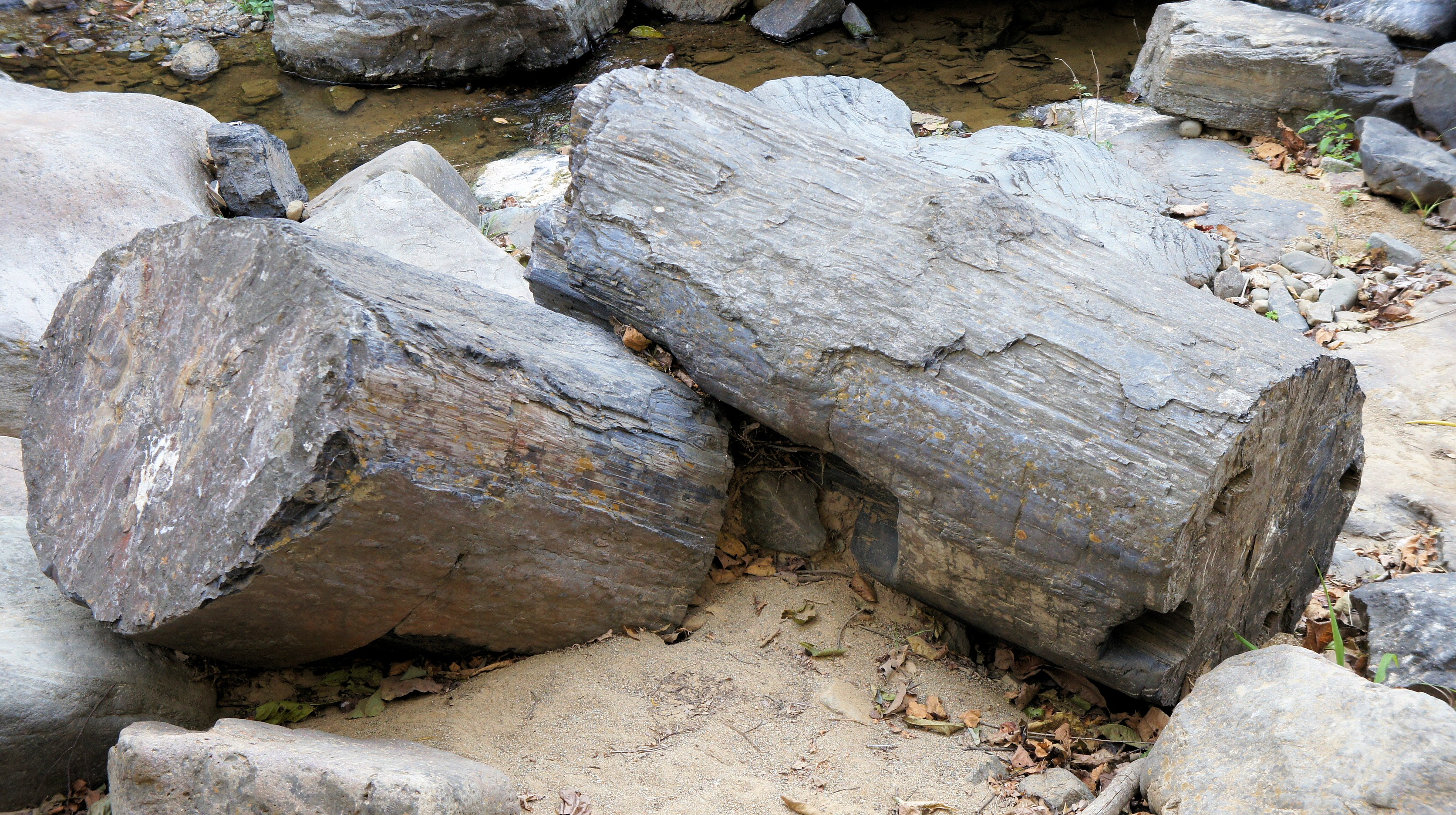 Two fossil trunks in the Bosque Petrificado de Puyango in southern Ecuador.